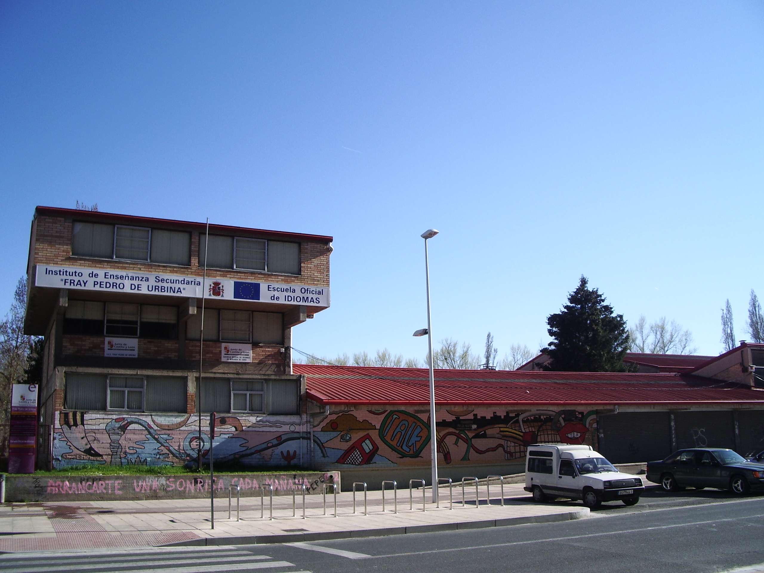 Secondary school and school of languages in Miranda de Ebro, spain